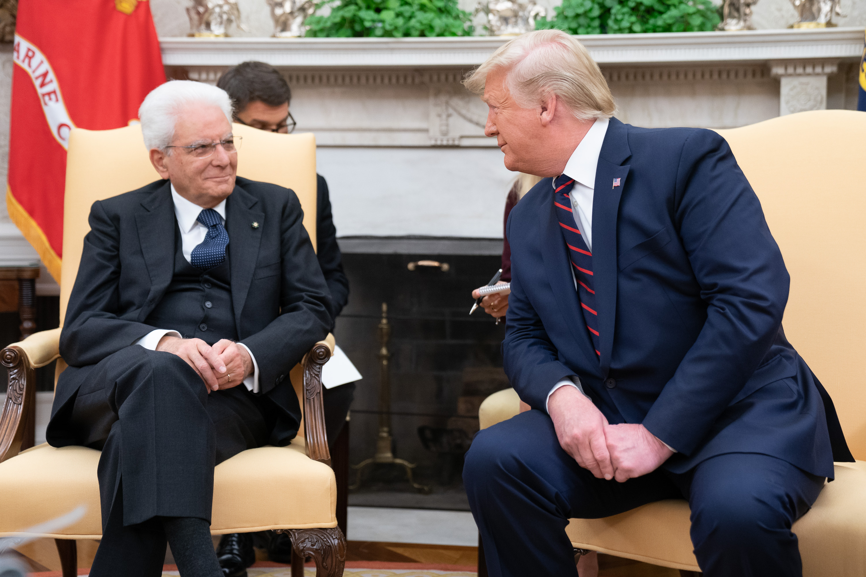 President Donald J. Trump participates in a bilateral meeting with Italian President Sergio Mattarella Wednesday, Oct. 16, 2019, in the Oval Office of the White House. (Official White House Photo by Shealah Craighead)